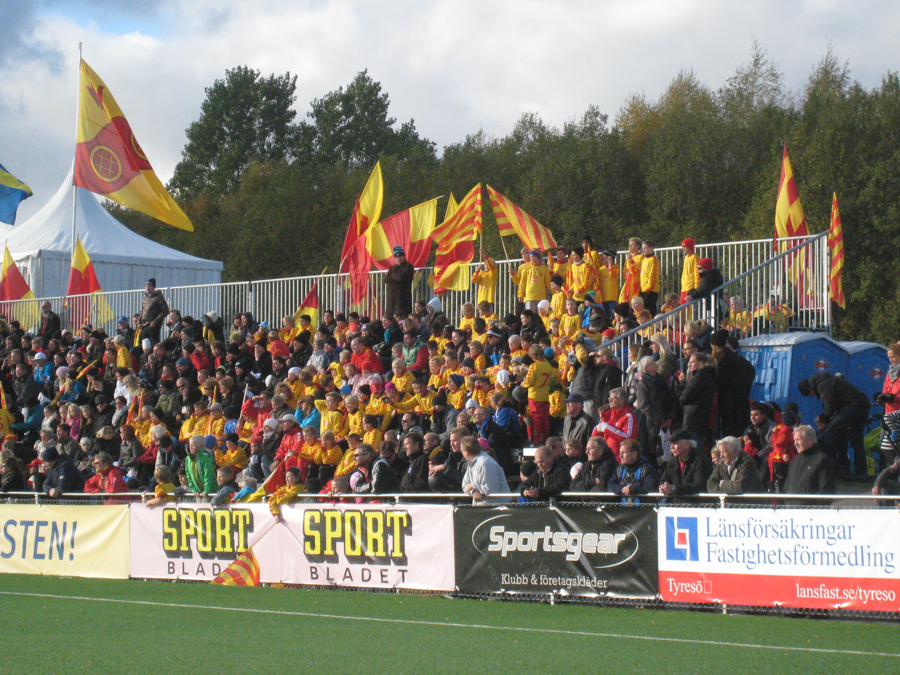 Fans attending Tyresö FF versus Kopparbergs/Göteborg FC in Sweden's womens' football league